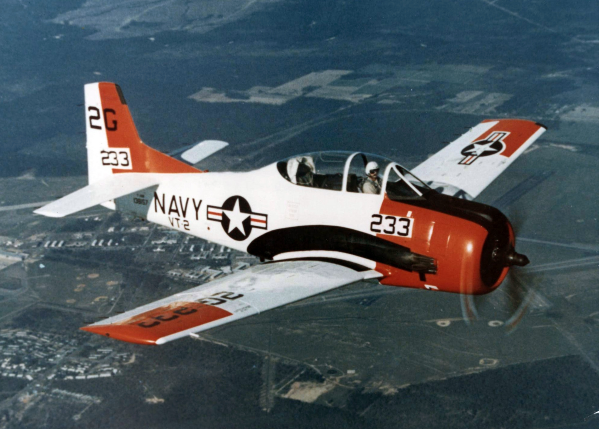 A U.S. Navy North American T-28B Trojan (BuNo 138157) of Training Squadron VT-2 pictured in flight near Naval Air Station Whiting Field, Florida (USA), circa 1973.